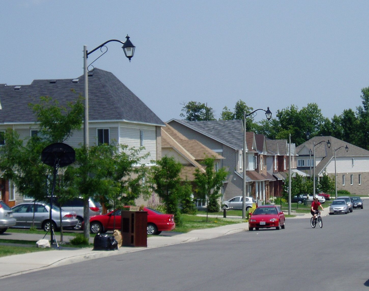 Barrhaven, taken by SimonP